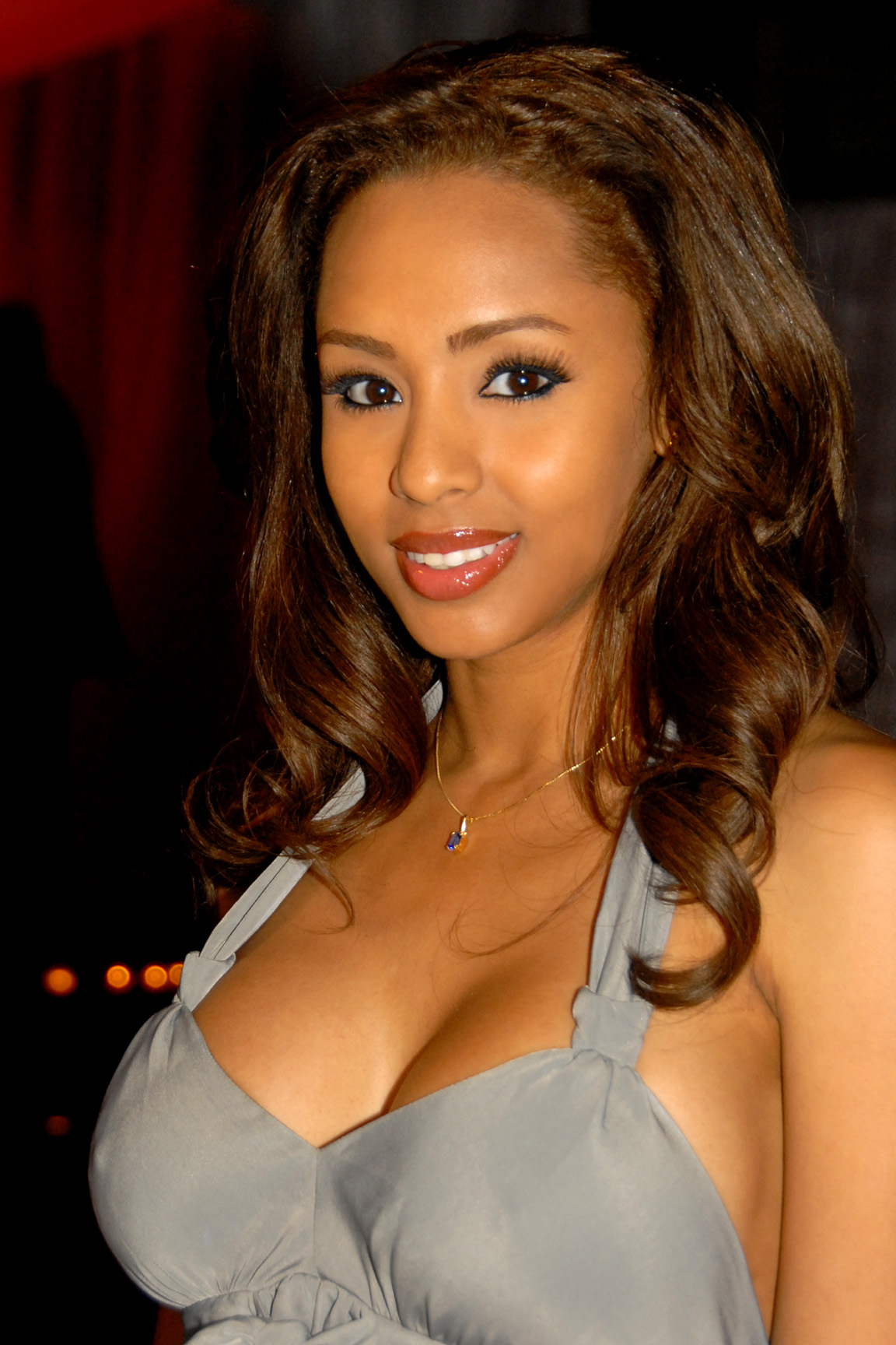 Ida Ljungqvist - Los Angeles, California on May 22, 2010 - Photo by Glenn Francis of